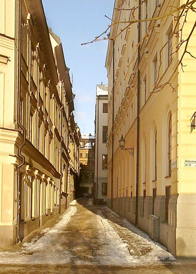 Lejonstedts Gränd in Gamla stan, Stockholm. Composite of three photos.